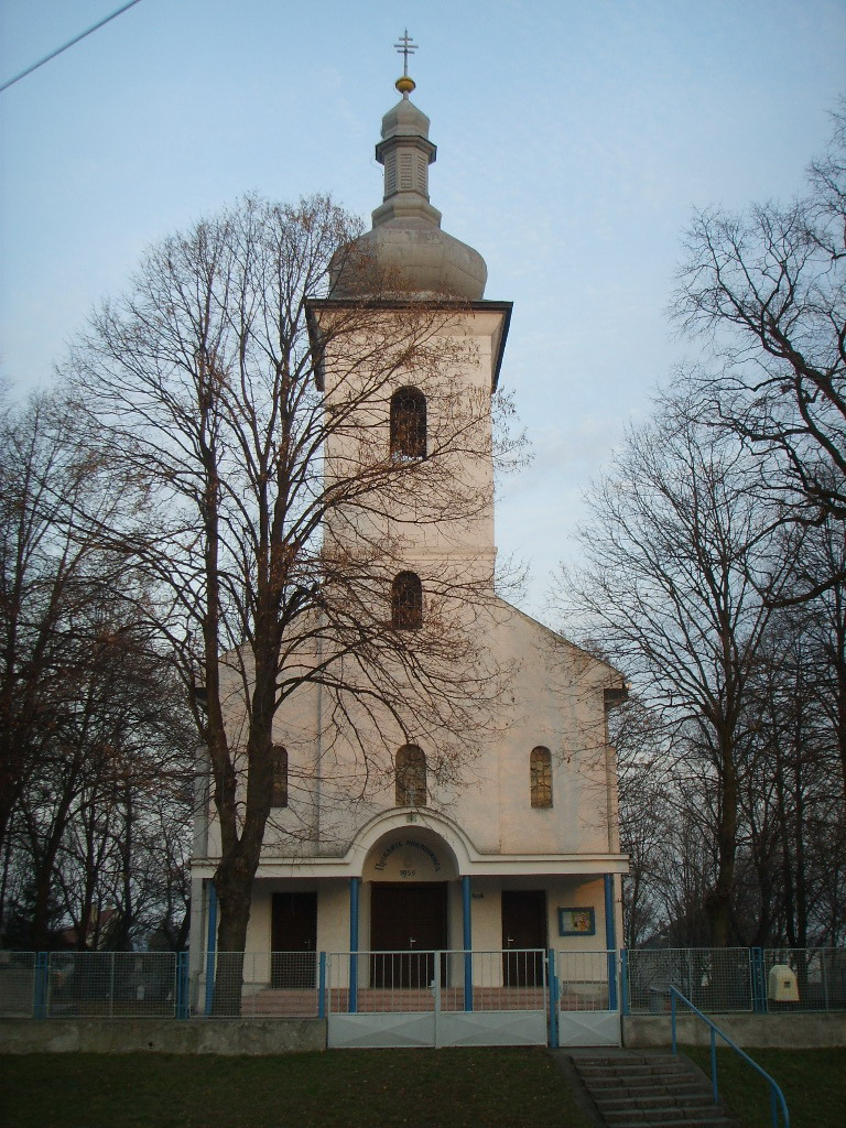 Greek-catholic church, Stankovce